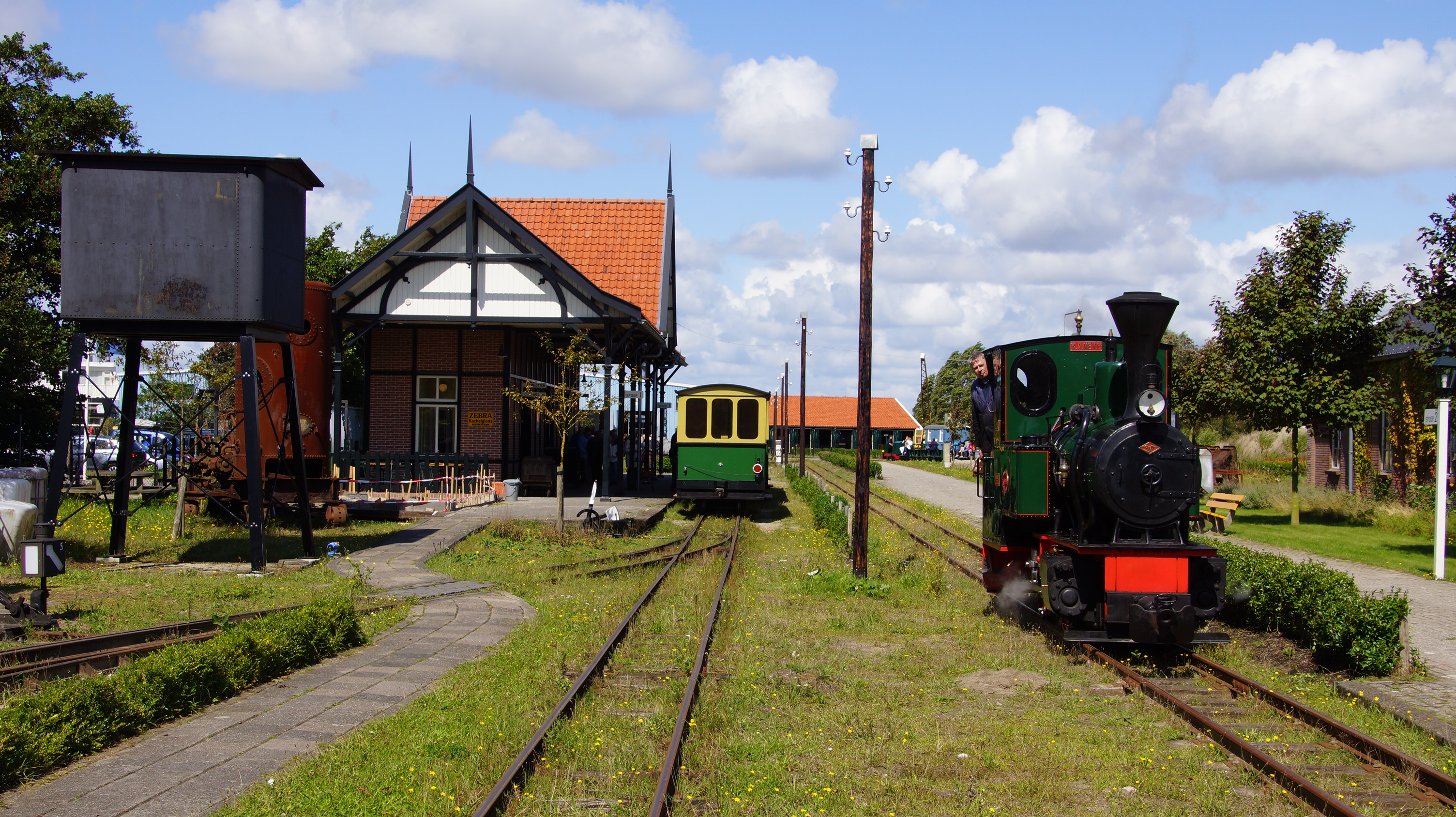 Orenstein & Koppel narrow gauge locomotives at the narrow gauge railway museum in Katwijk (NL)